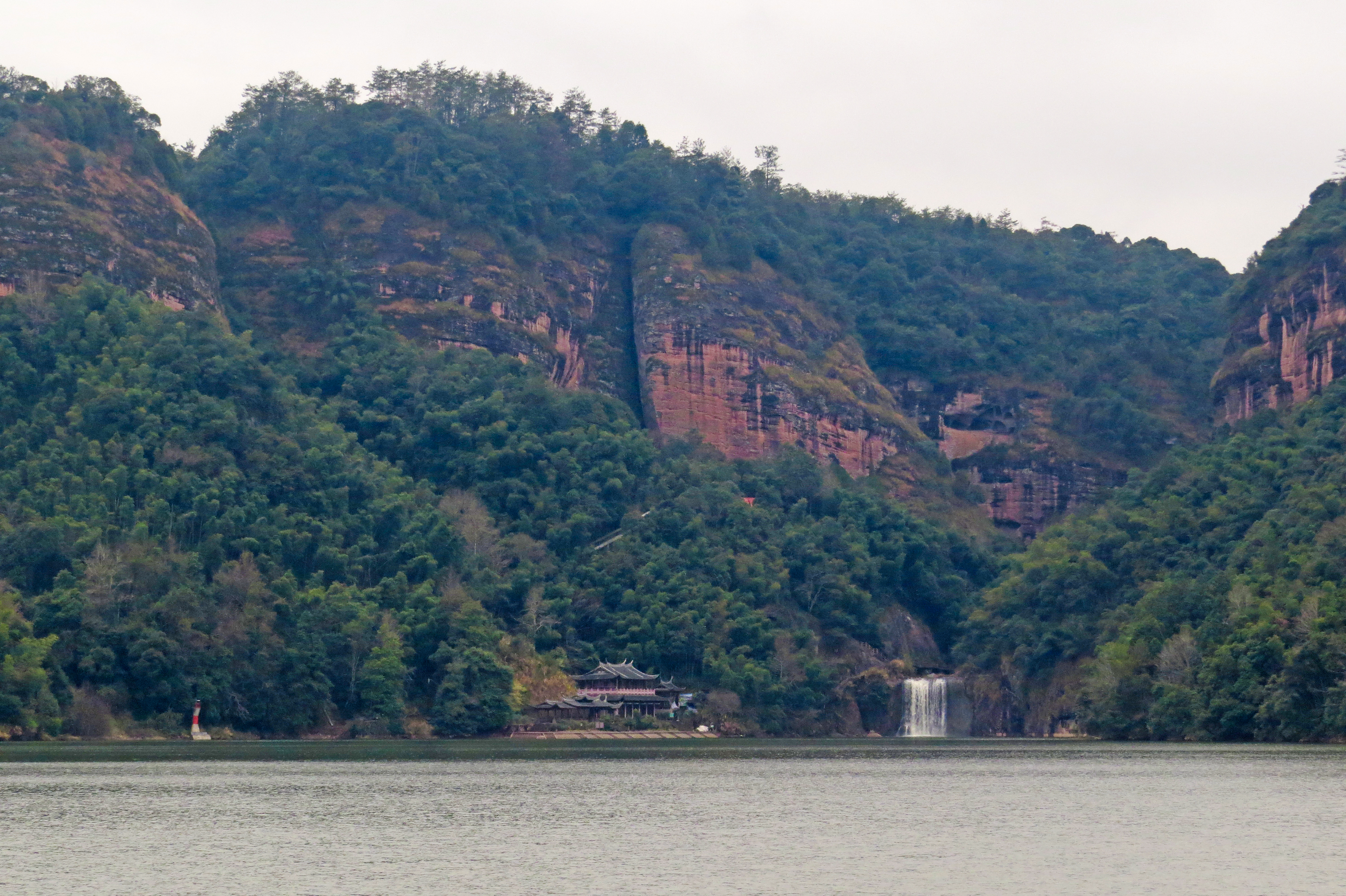 Didn't actually enter the scenic zone (with tickets).